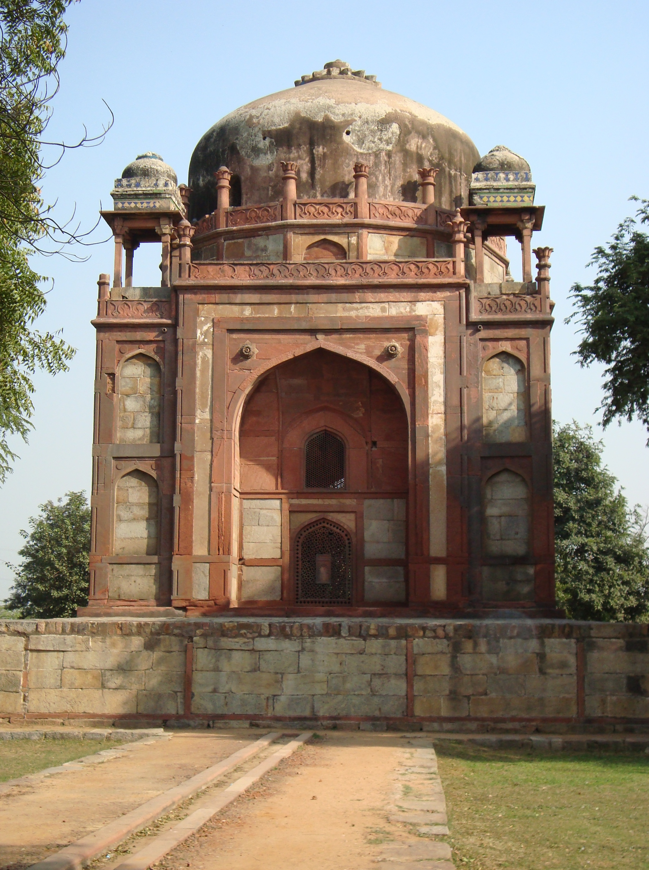 Barber's Tomb at Humayun's Tomb complex, New Delhi, India.